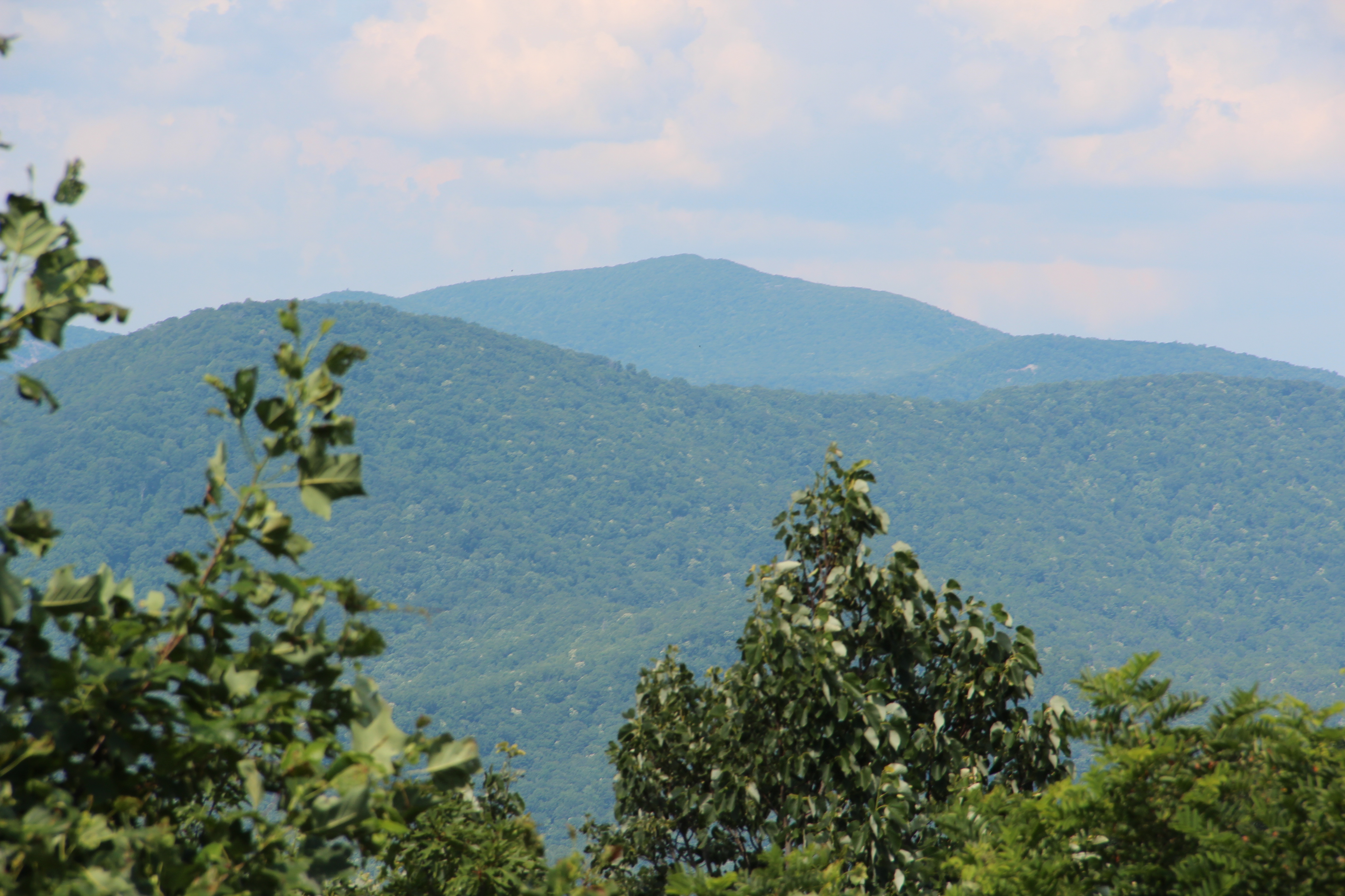 Rabun Bald viewed from the Blue Ridge Overlook in Black Rock Mountain State Park